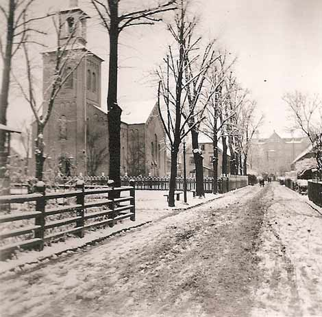 Classerkirken or De Classenske Boligers Kirke, church in Frederiksberg, Denmark. Est. 1880, demolished 1911. Designed by Vilhelm Tvede.